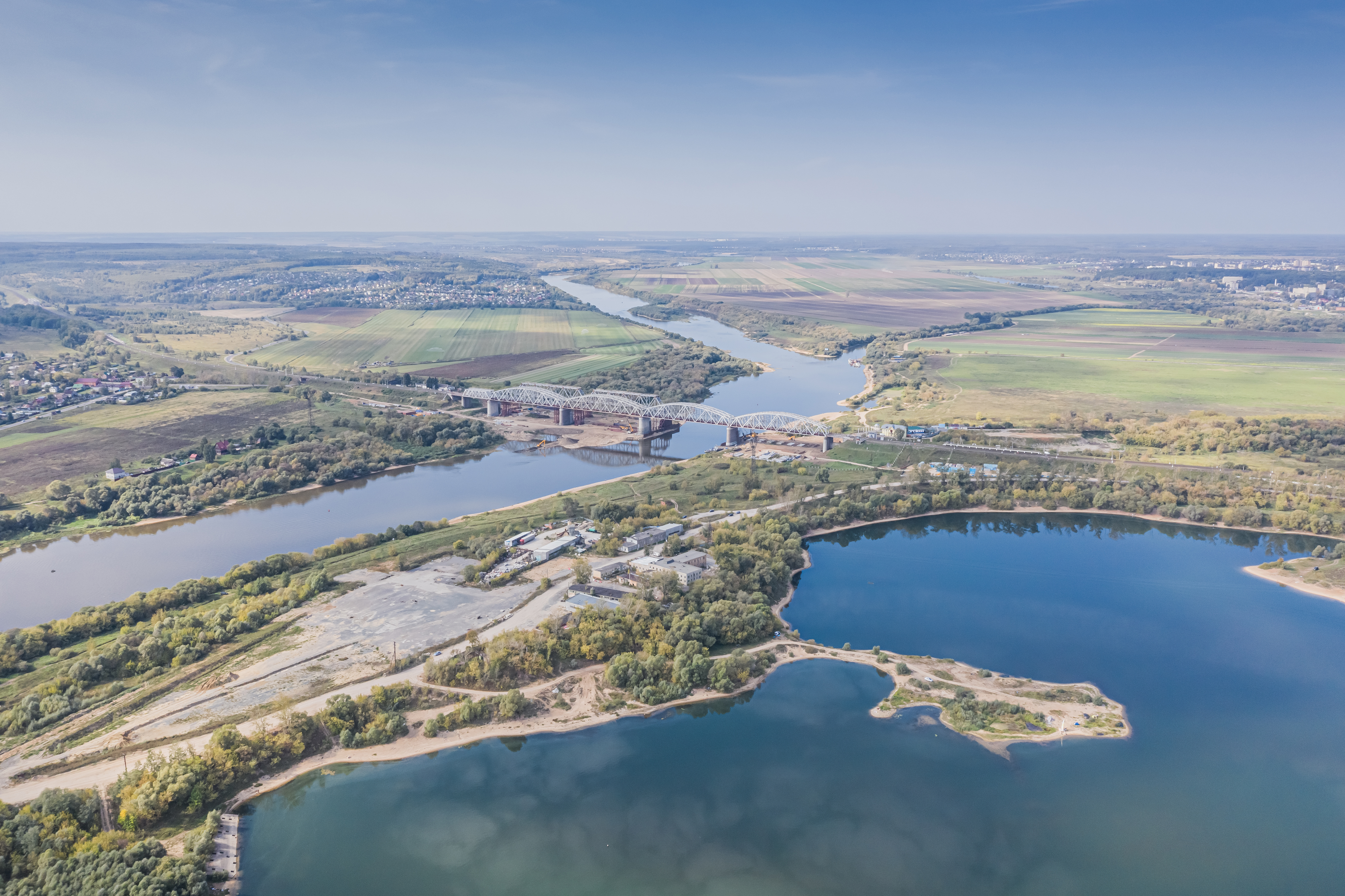 Aerial photo of Lake Pavlenskoye and Oka River near Serpukhov, Moscow Oblast, Russia